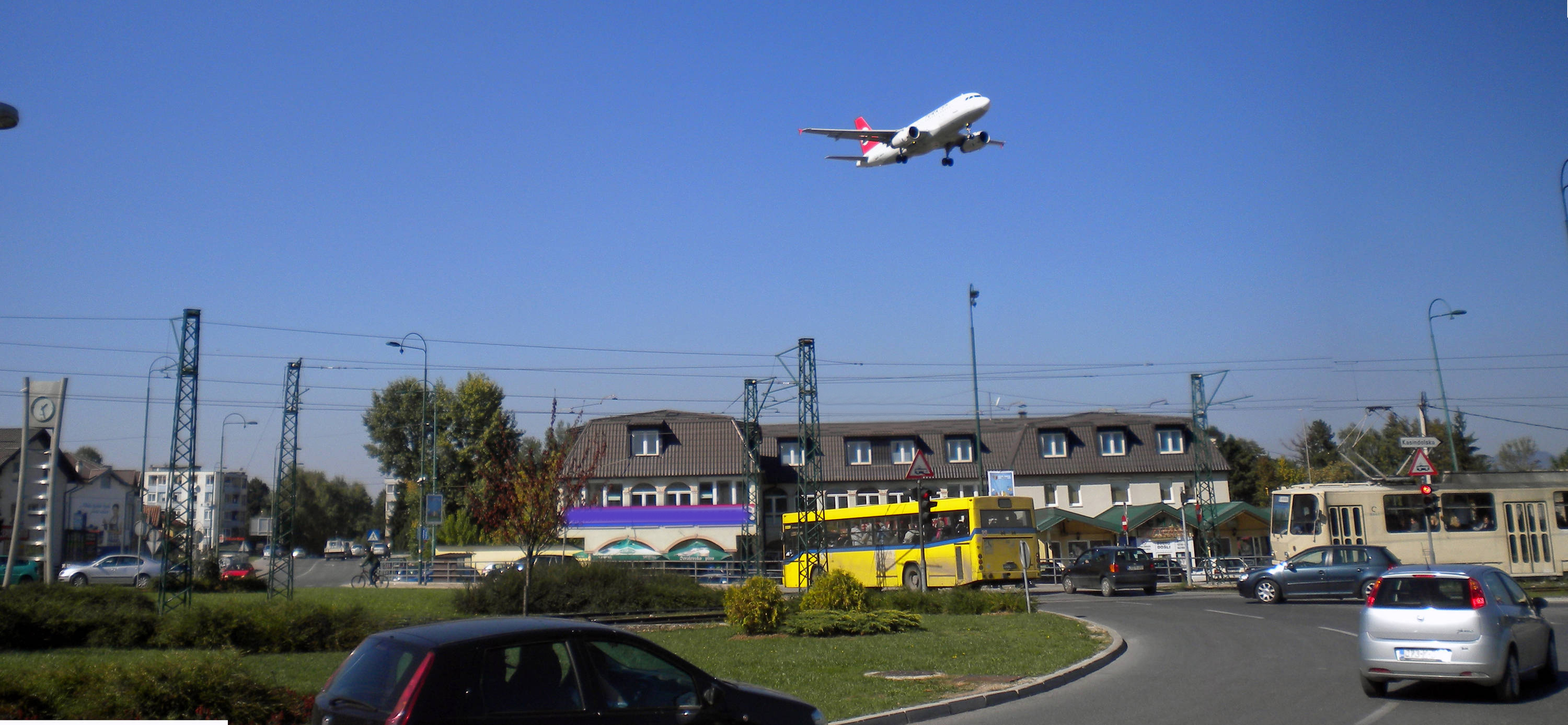 Ilidža traffic